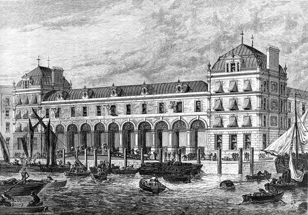 Billingsgate Fish Market in 1876.